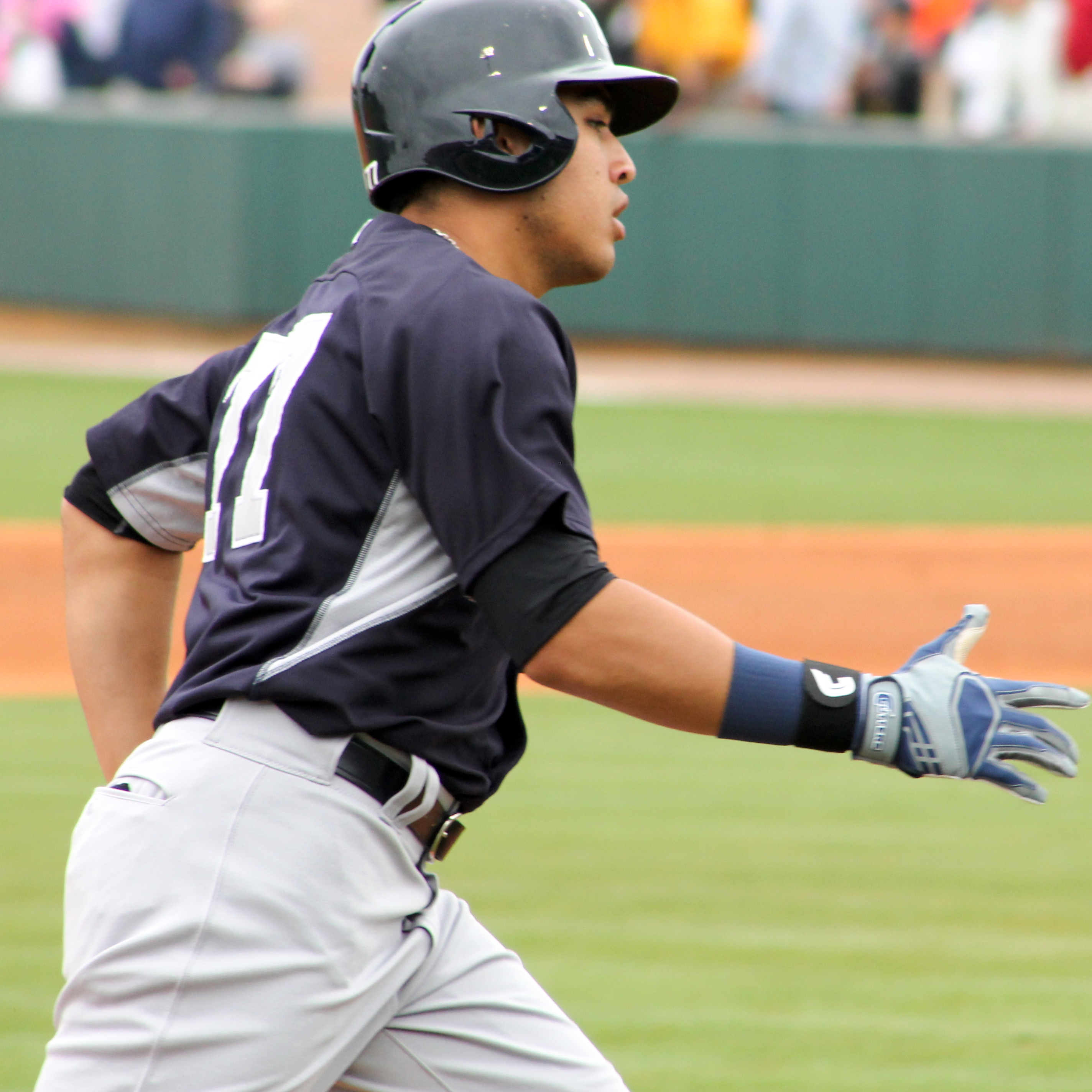 Professional baseball player Ramon Flores runs the bases after a home run in spring training in 2015.